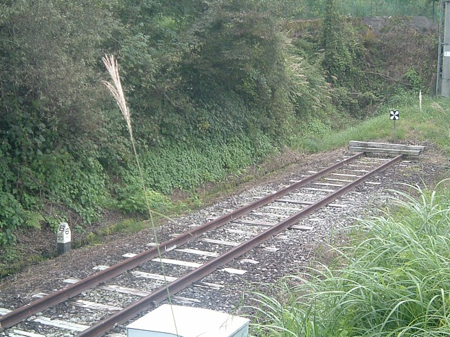 Terminus of Agatsuma Line, located at Omae Station